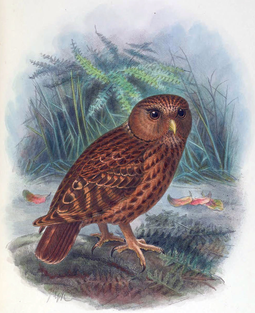 The Rufous-faced Owl (Sceloglaux rufifacies now Sceloglaux albifacies rufifacies) Chromolithograph. Plate 7 from Supplement to the Birds of New Zealand. By Walter Lawry Buller (1838–1906). Artwork by John Gerard Keulemans (1842-1912). This was published in (London) in 1905.